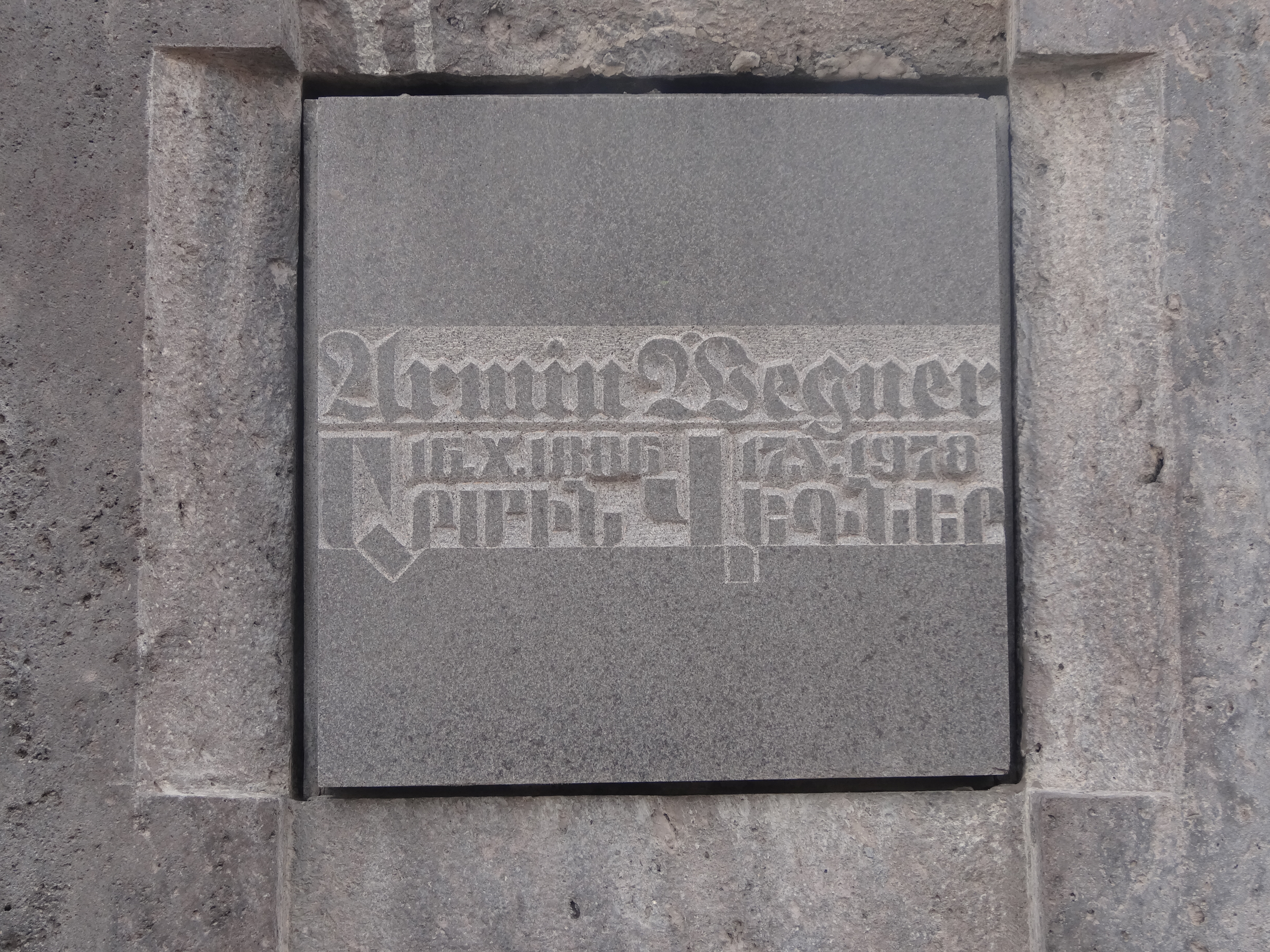 Plaque at Tsitsernakaberd for Armin Wegner (Yerevan, Armenia)